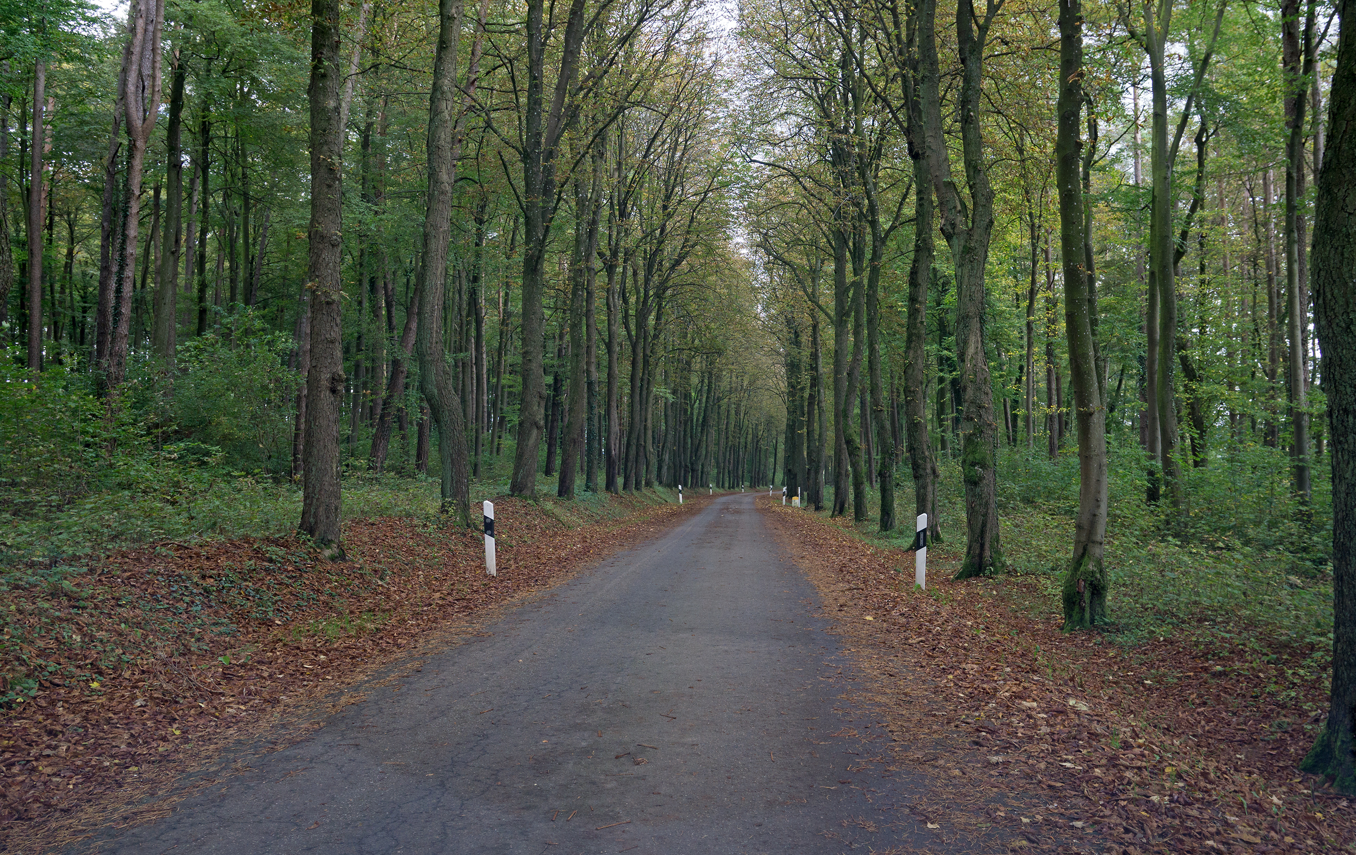 Cadastre allotments on the right and left of the CR117 from Angelsberg to Meysembourg